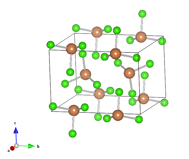 SbCl3 crystal structure with Sb-Cll bonds drawn using VESTA K. Momma and F. Izumi, "VESTA: a three-dimensional visualization system for electronic and structural analysis." J. Appl. Crystallogr., 41:653-658, 2008.